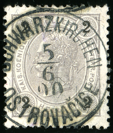 Austrian KK 2 heller stamp, bilingual cancelled SCHWARZKIRCHEN - OSTROVACICE (Moravia) in 1900.